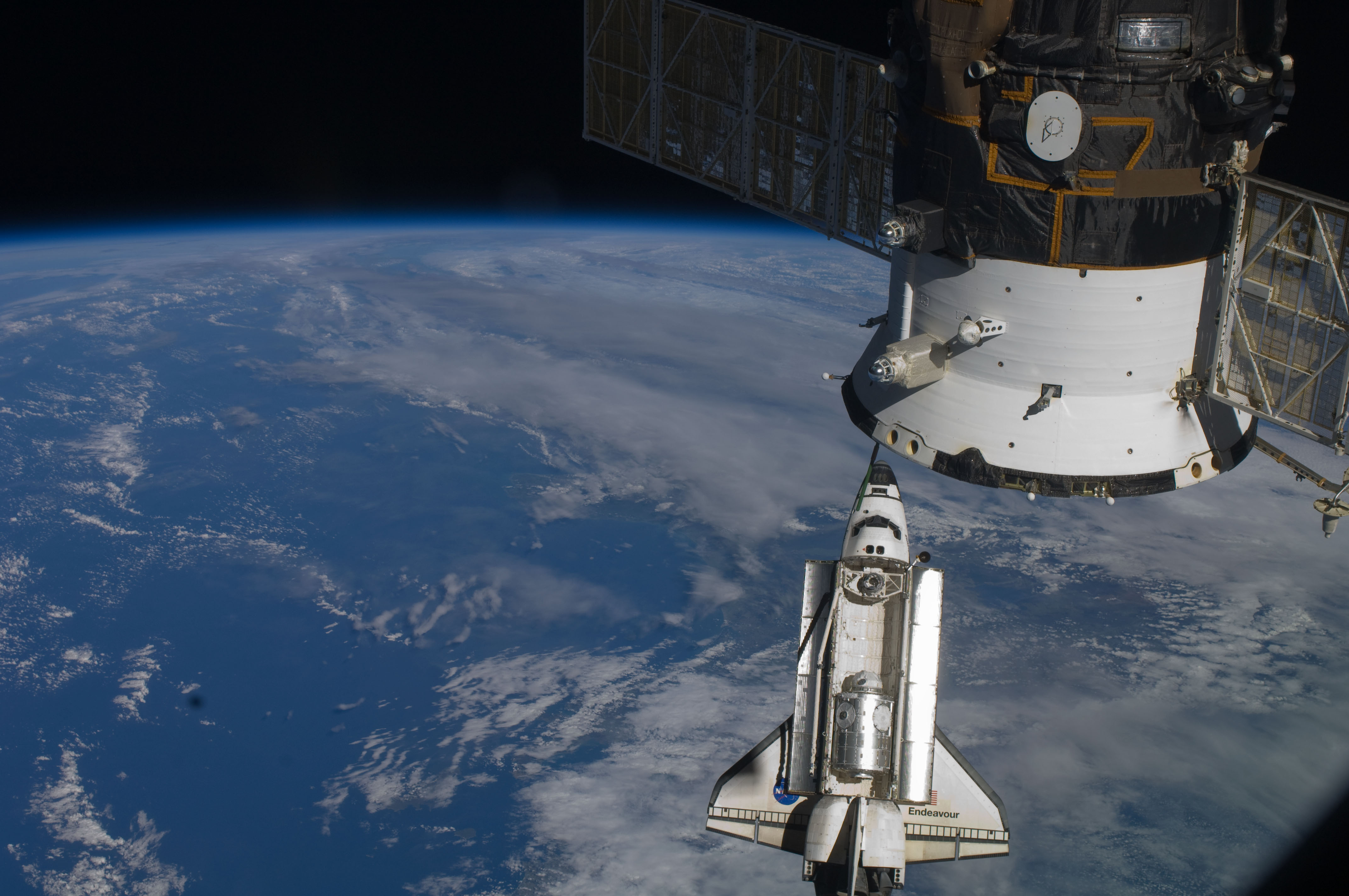 Backdropped by a blue and white part of Earth, space shuttle Endeavour is featured in this image photographed by an Expedition 22 crew member as the shuttle approaches the International Space Station during STS-130 rendezvous and docking operations. Docking occurred at 11:06 p.m. (CST) on Feb. 9, 2010. A docked Russian spacecraft is at upper right.